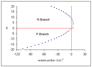 Relates to rotational fine structure of Vibronic band